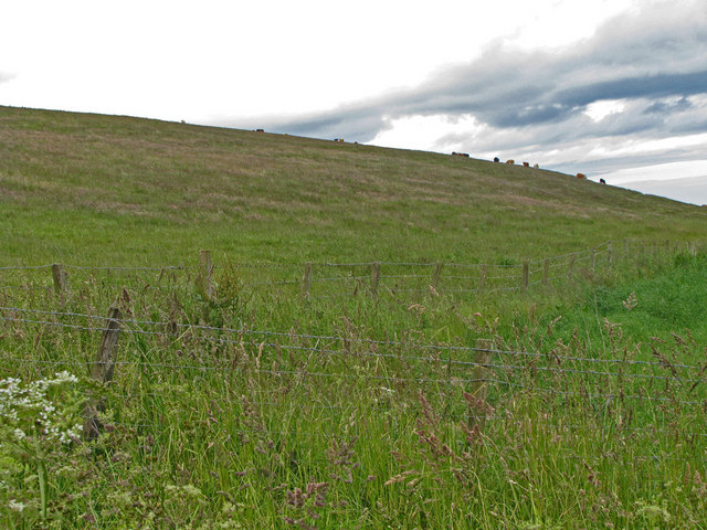 Cows grazing on the southern slopes of Hersha Hill